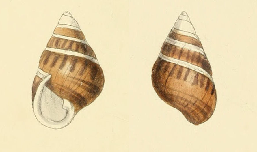 Plate from Zoological illustrations, Volume 3, 2nd series. Achatinella perversa Sw. Accepted as Achatinella decora[1] This file has been extracted from another file: Zoological Illustrations Volume III Series 2 099.jpg